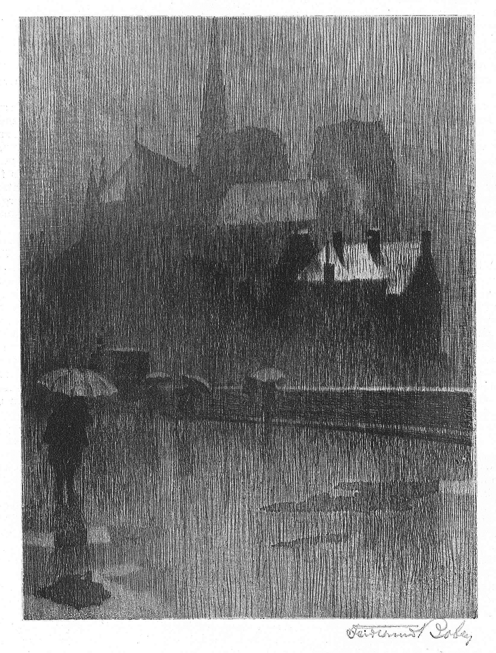 "Regn" (rain), etching by Swedish architect and artist Ferdinand Boberg.